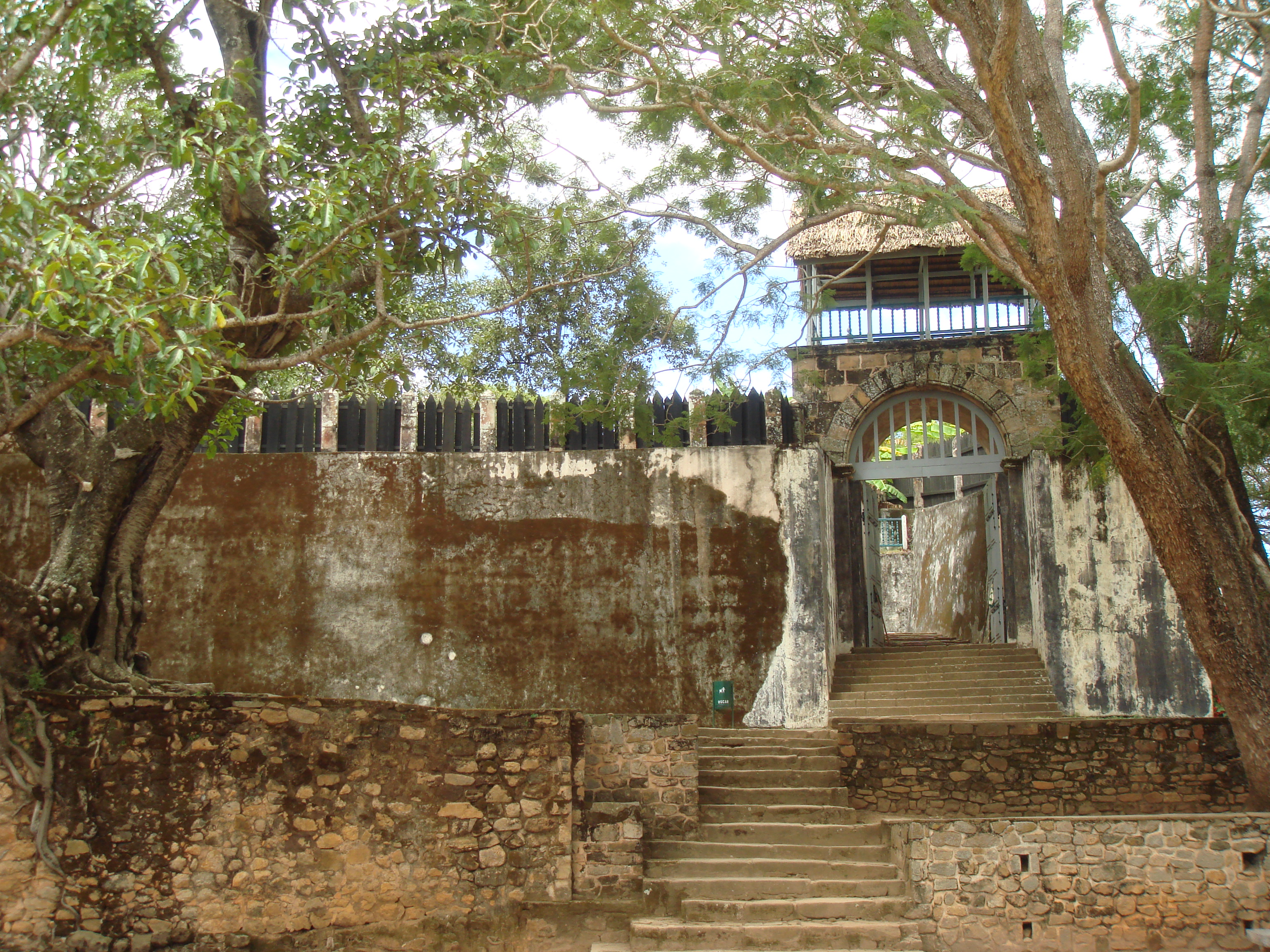 The Palace of Ambihomanga.